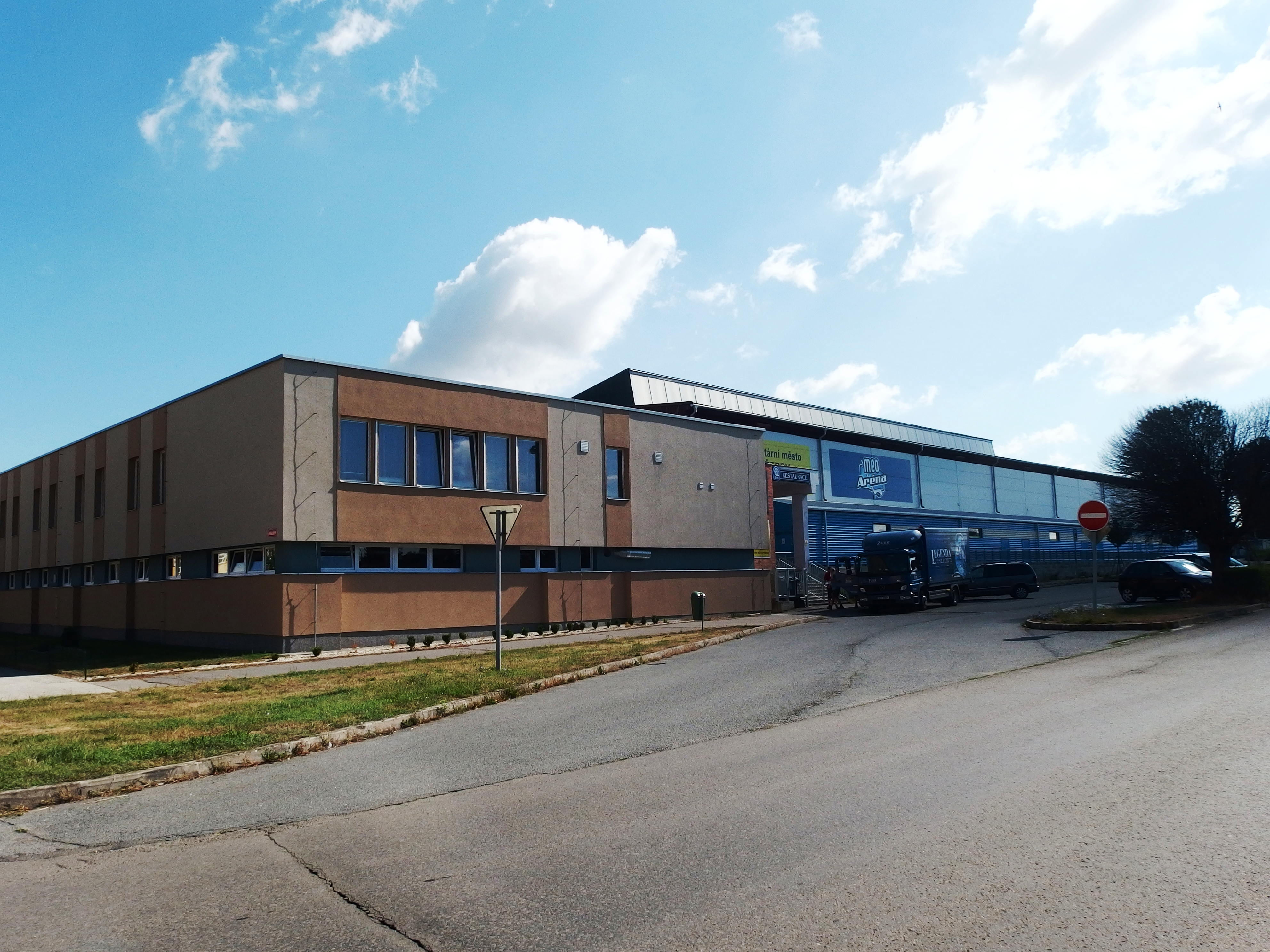 Přerov, Czech Republic.